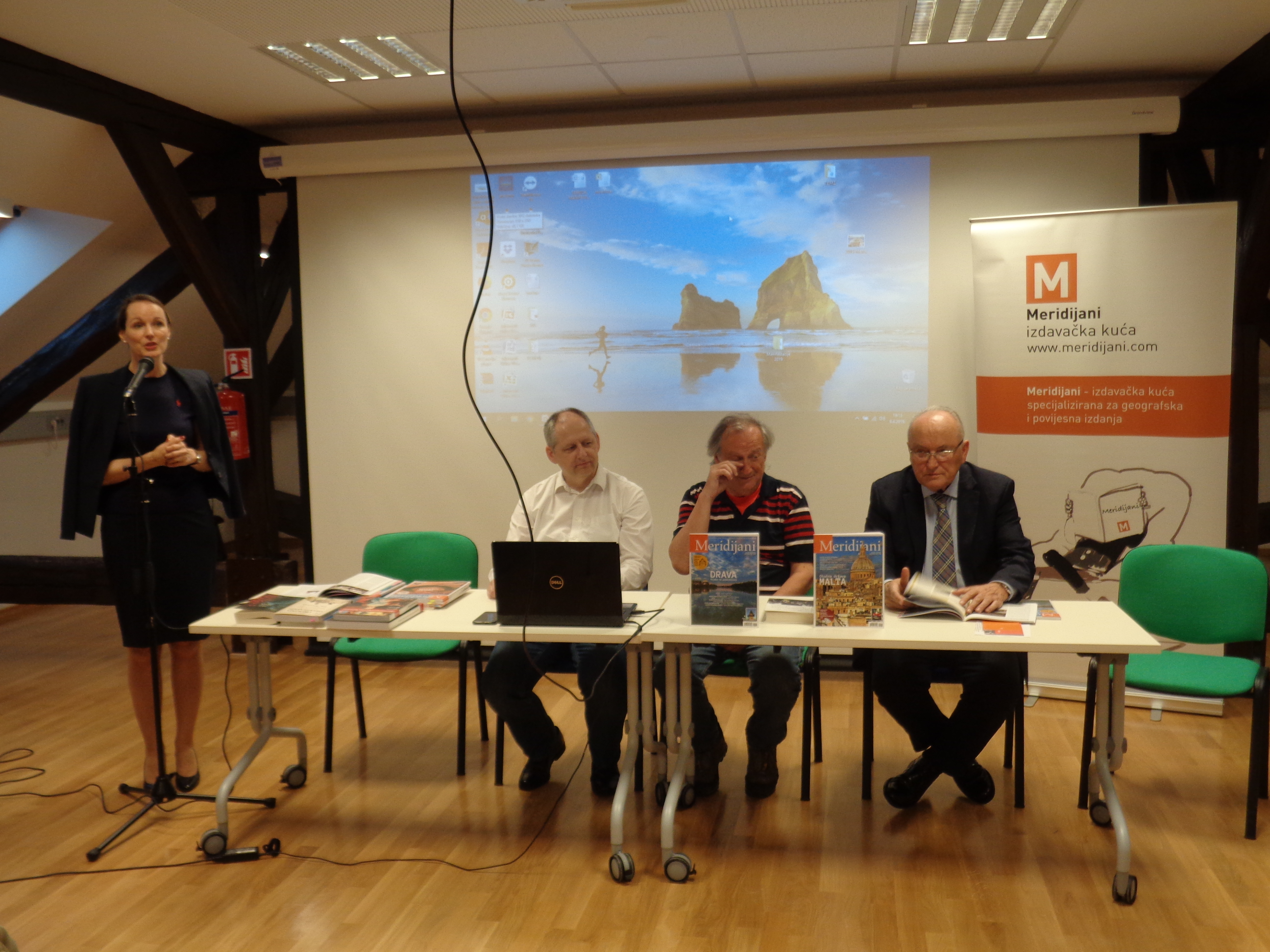 "Meridijani" magazine promotion in Čakovec, Croatia, on April 9th, 2019